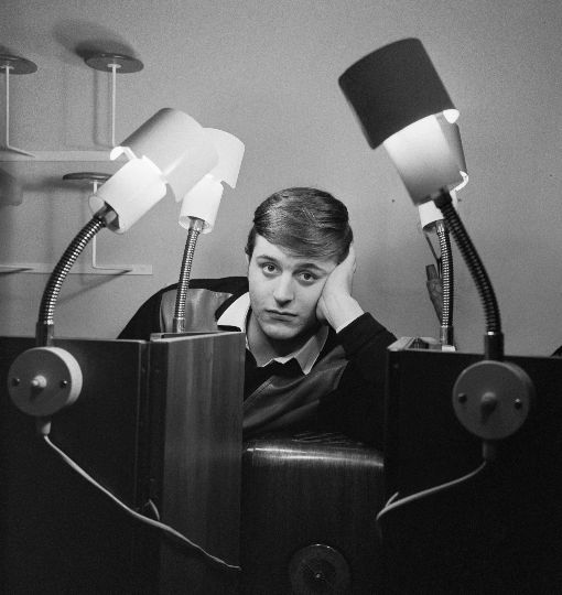 Photograph of the Finnish actor Esko Salminen (1940–).